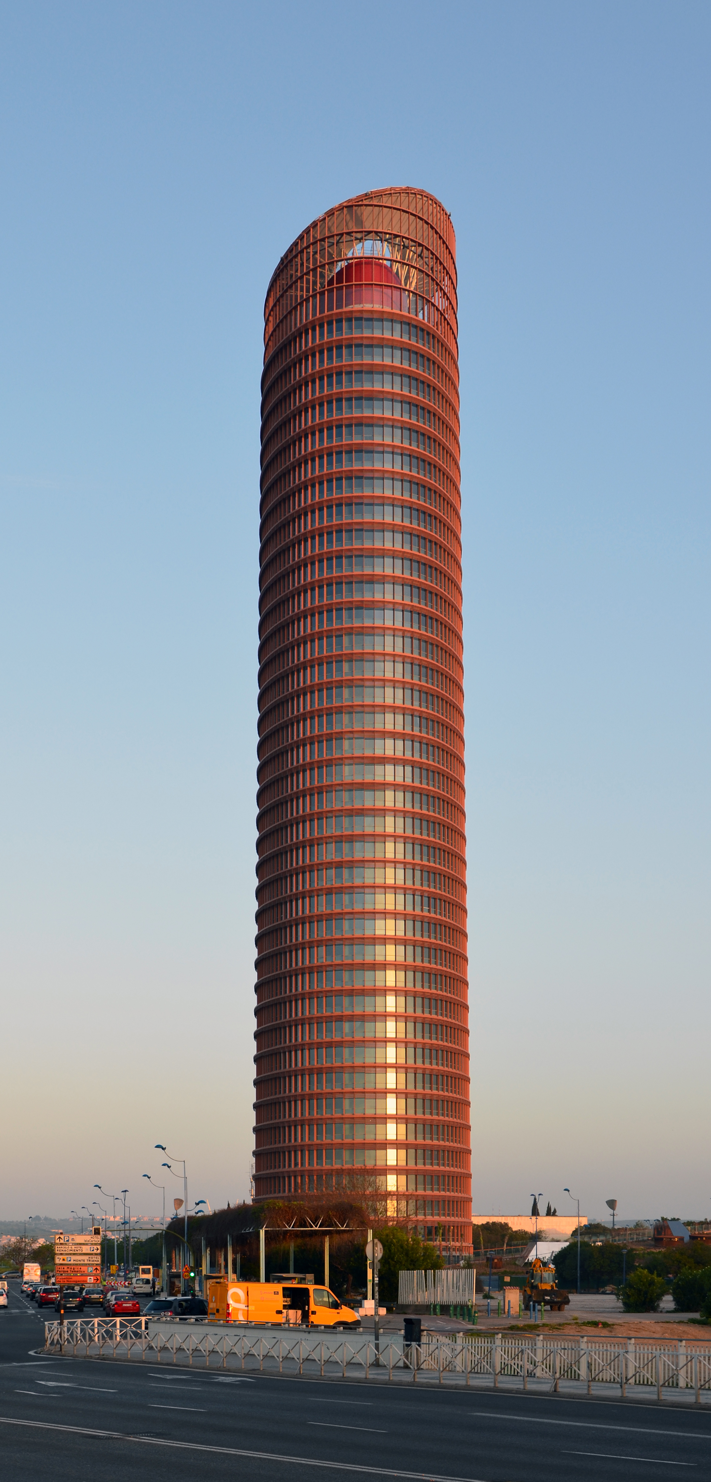 The Sevilla Tower (first known as Cajasol Tower or Pelli Tower) of Seville (Spain), photographed in april 2015 from the west extremity of the Cristo de la Expiración bridge.